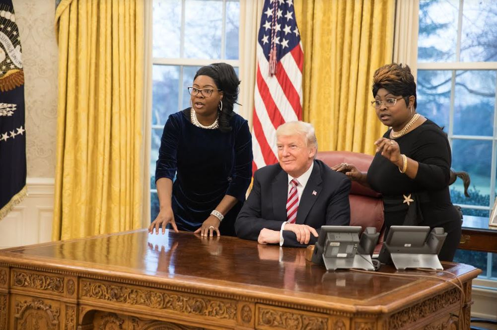 Diamond and Silk meeting with President Donald Trump